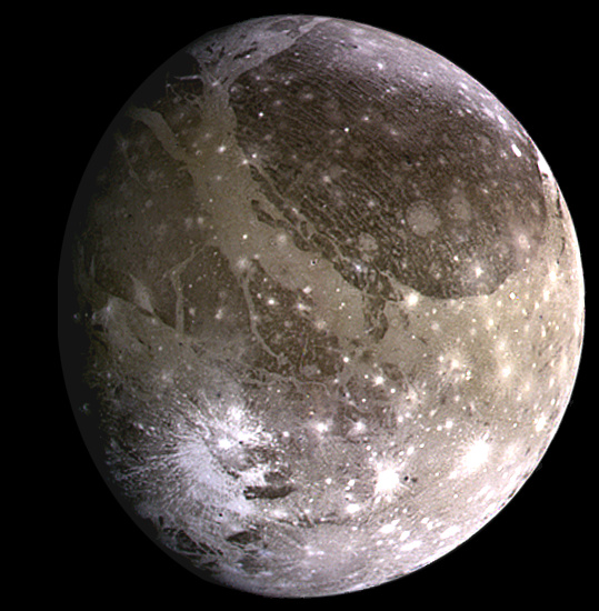 Photo of Ganymede, obtained by the Galileo spacecraft, with enhanced contrast. This is a crop of Image:The Galilean satellites (the four largest moons of Jupiter).tif (PIA01299) Here is the description from JPL's web entry for PIA00716 ( Natural color view of Ganymede from the Galileo spacecraft during its first encounter with the satellite. North is to the top of the picture and the sun illuminates the surface from the right. The dark areas are the older, more heavily cratered regions and the light areas are younger, tectonically deformed regions. The brownish-gray color is due to mixtures of rocky materials and ice. Bright spots are geologically recent impact craters and their ejecta. The finest details that can be discerned in this picture are about 13.4 kilometers across. The images which combine for this color image were taken beginning at Universal Time 8:46:04 UT on June 26, 1996. The Jet Propulsion Laboratory, Pasadena, CA manages the mission for NASA's Office of Space Science, Washington, DC. This image and other images and data received from Galileo are posted on the World Wide Web, on the Galileo mission home page at URL Background information and educational context for the images can be found at